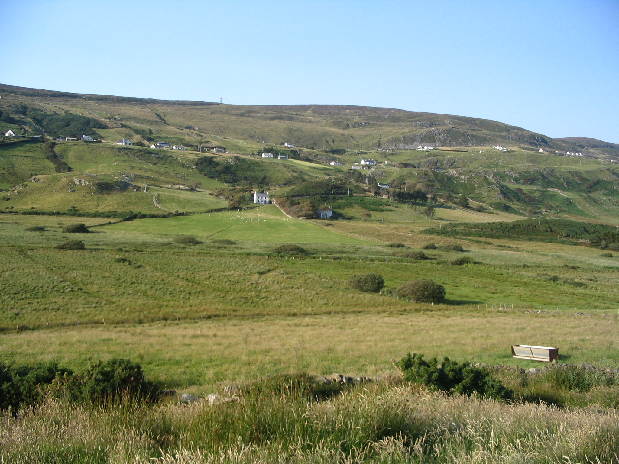 Glencolumbkille